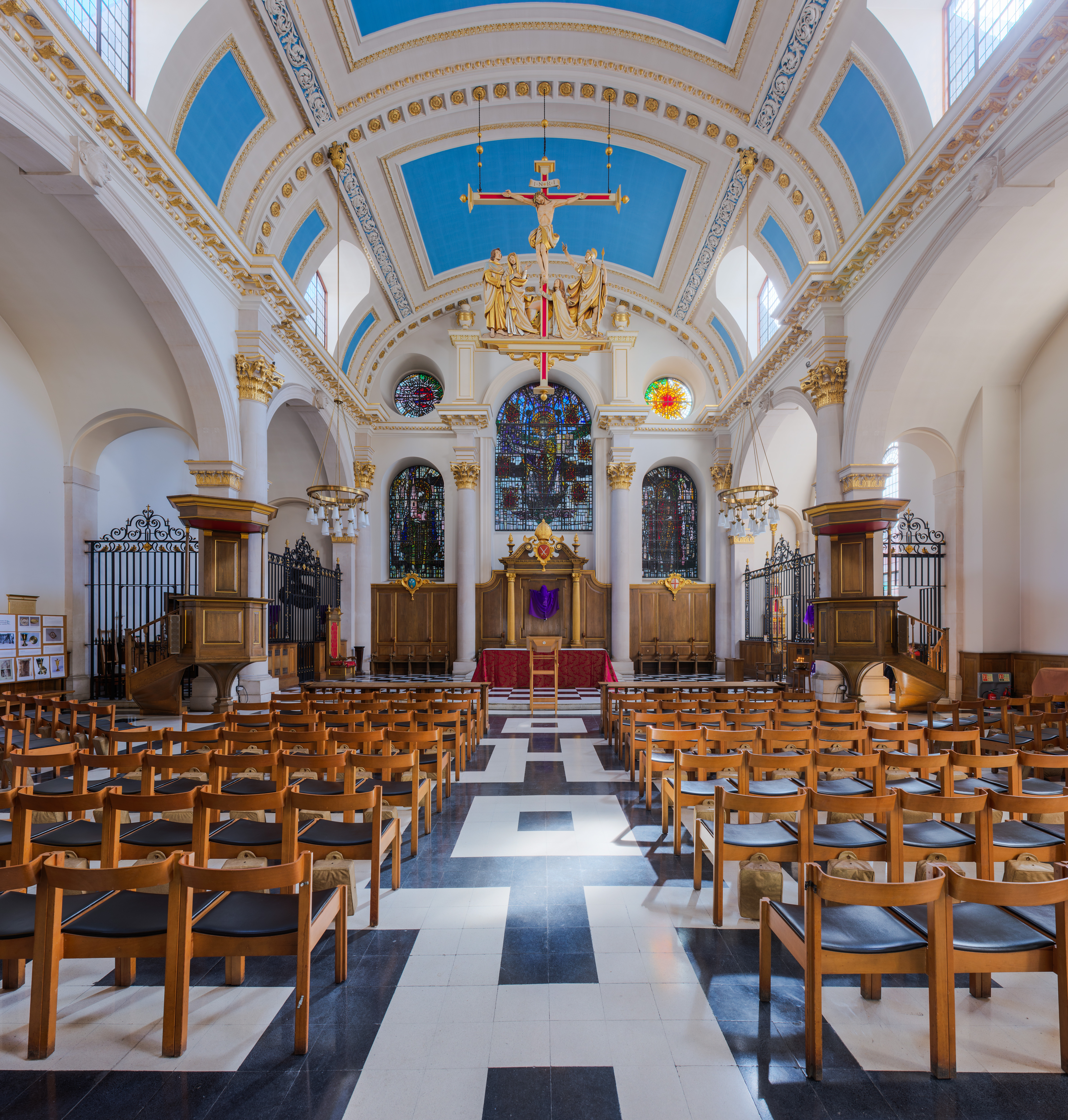 The interior of the St Mary-le-Bow Church, facing toward the altar.